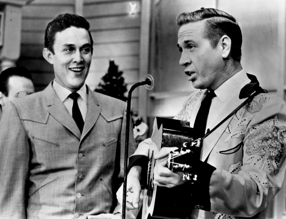 Photo of Jimmy Dean (left) and guest Buck Owens from the television program The Jimmy Dean Show.